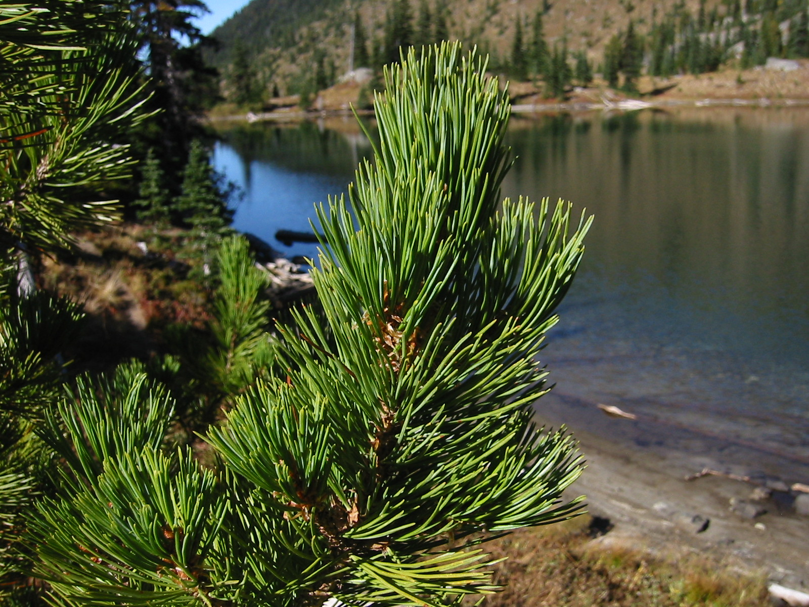 Whitebark Pine foliage near the shore of Crystal Lake.